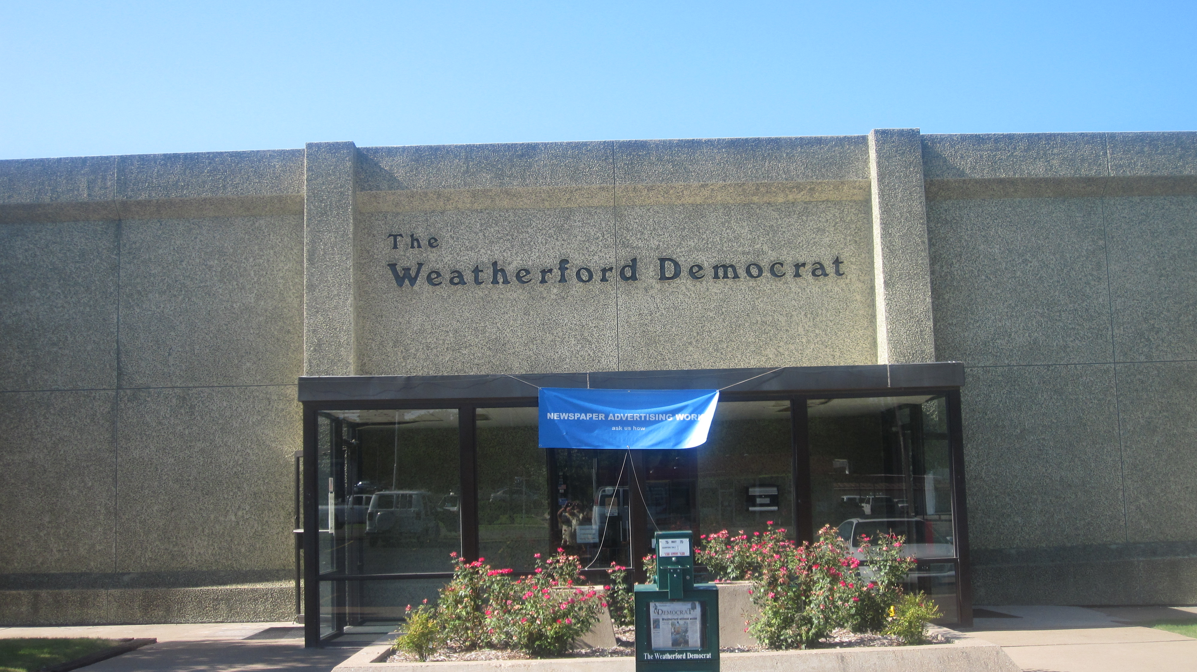 I took photo with Canon camera in Weatherford, TX.